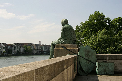 Helvetia auf Reisen ("Helvetia on her travels"), 1979/1980 statue by Bettina Eichin. The personification of Switzerland sits beside the Rhine in Basel. Her dropped spear, shield, and suitcase are visible here.